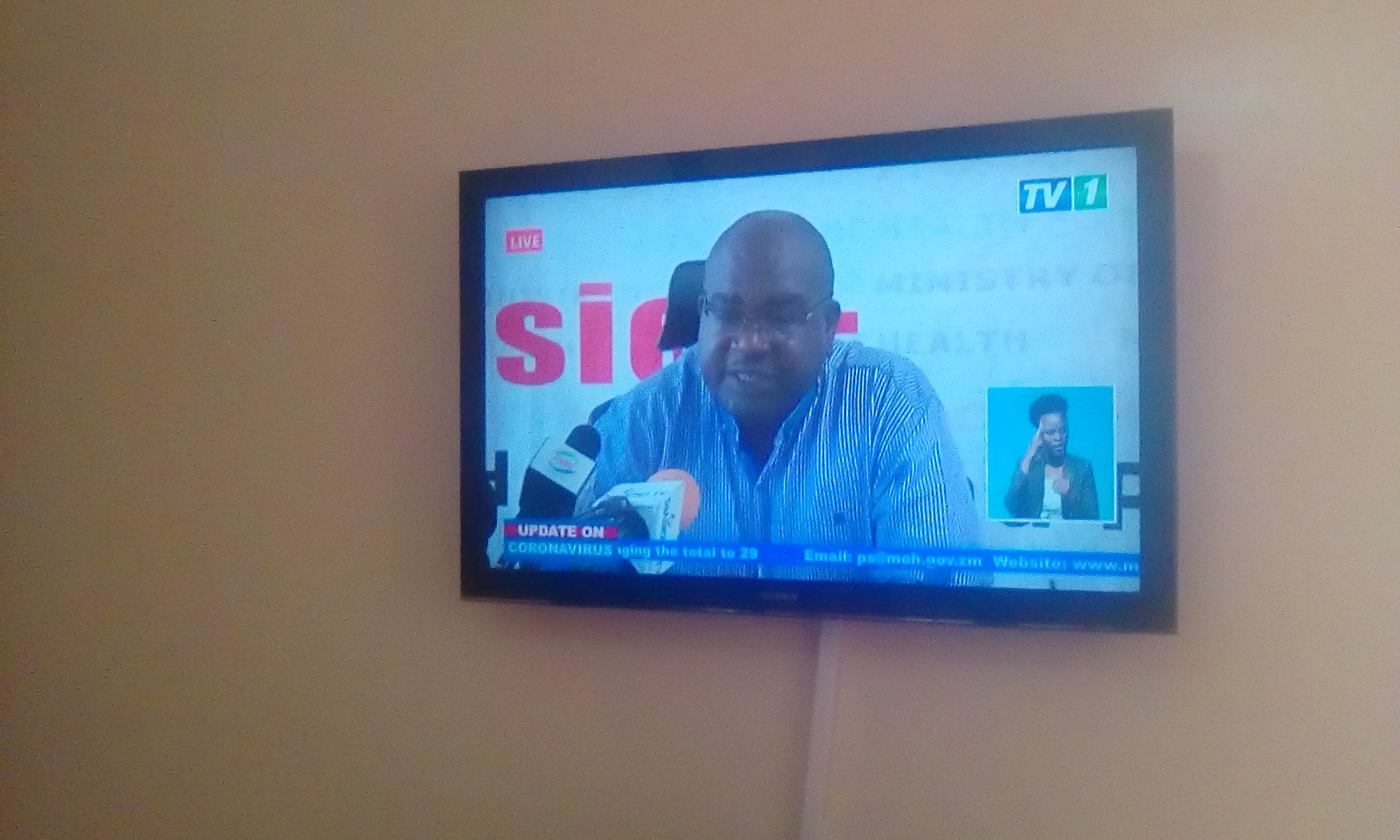 This is an image with the theme "Africa on the Move or Transport" from: Zambia